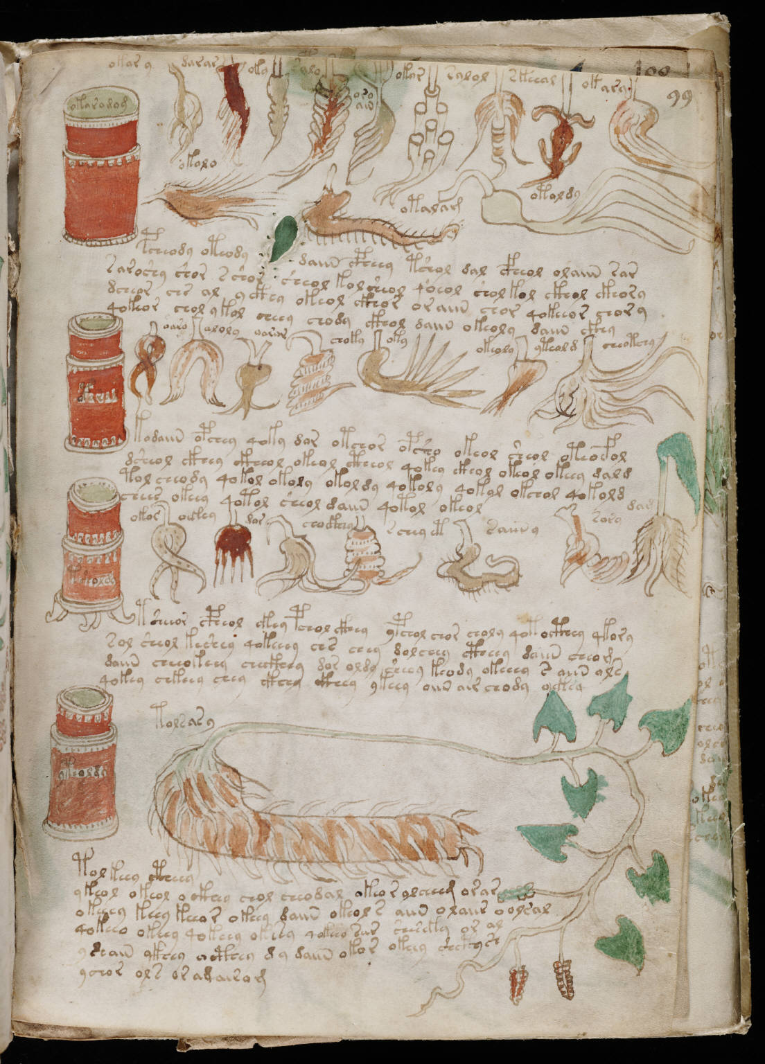 A page from the mysterious Voynich manuscript, which is undeciphered to this day.